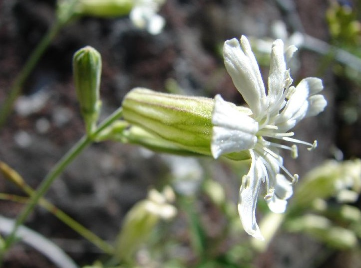 Silene douglasii from Sheri Hagwood. Bureau of Land Management. United States, ID, Bureau of Land Management Jarbidge Resource Area. June 25, 2007.